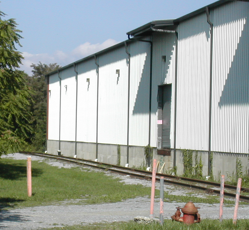 As of 2005, still exists at the intersection of Donovan Road and the tracks.